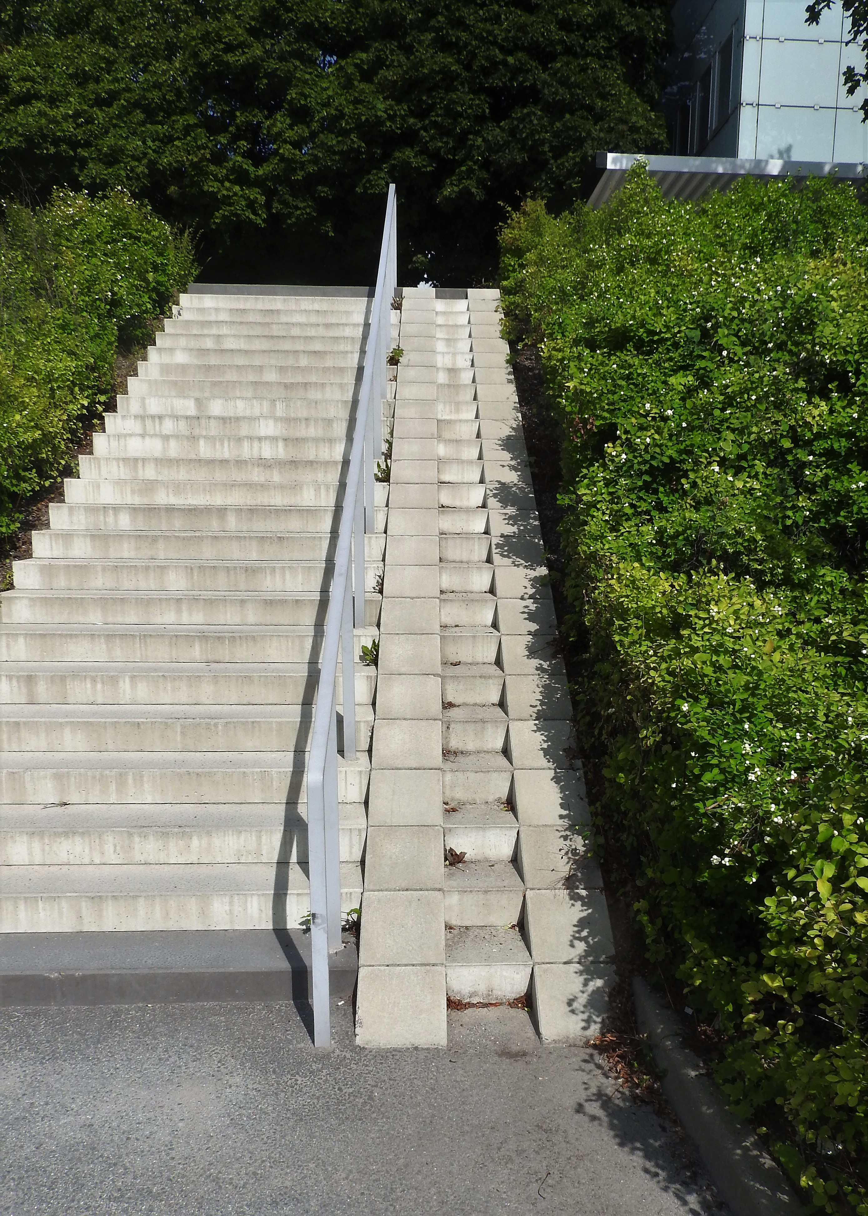 Looking north from Stockholm University parking lot